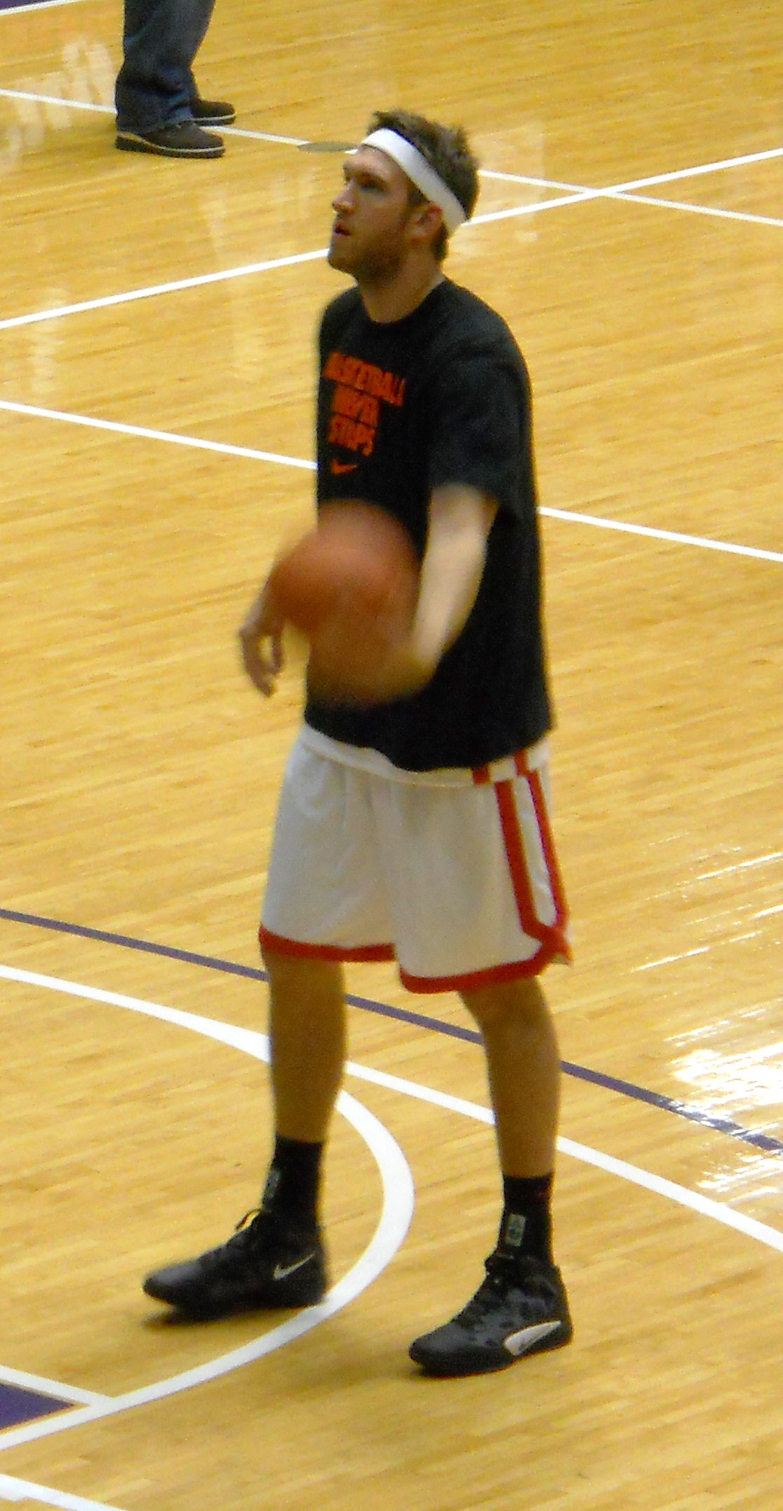 The Rip City Basketball Classic hosted by Portland Trail Blazers forward LaMarcus Aldridge at the Chiles Center in University Park, Portland, Oregon.